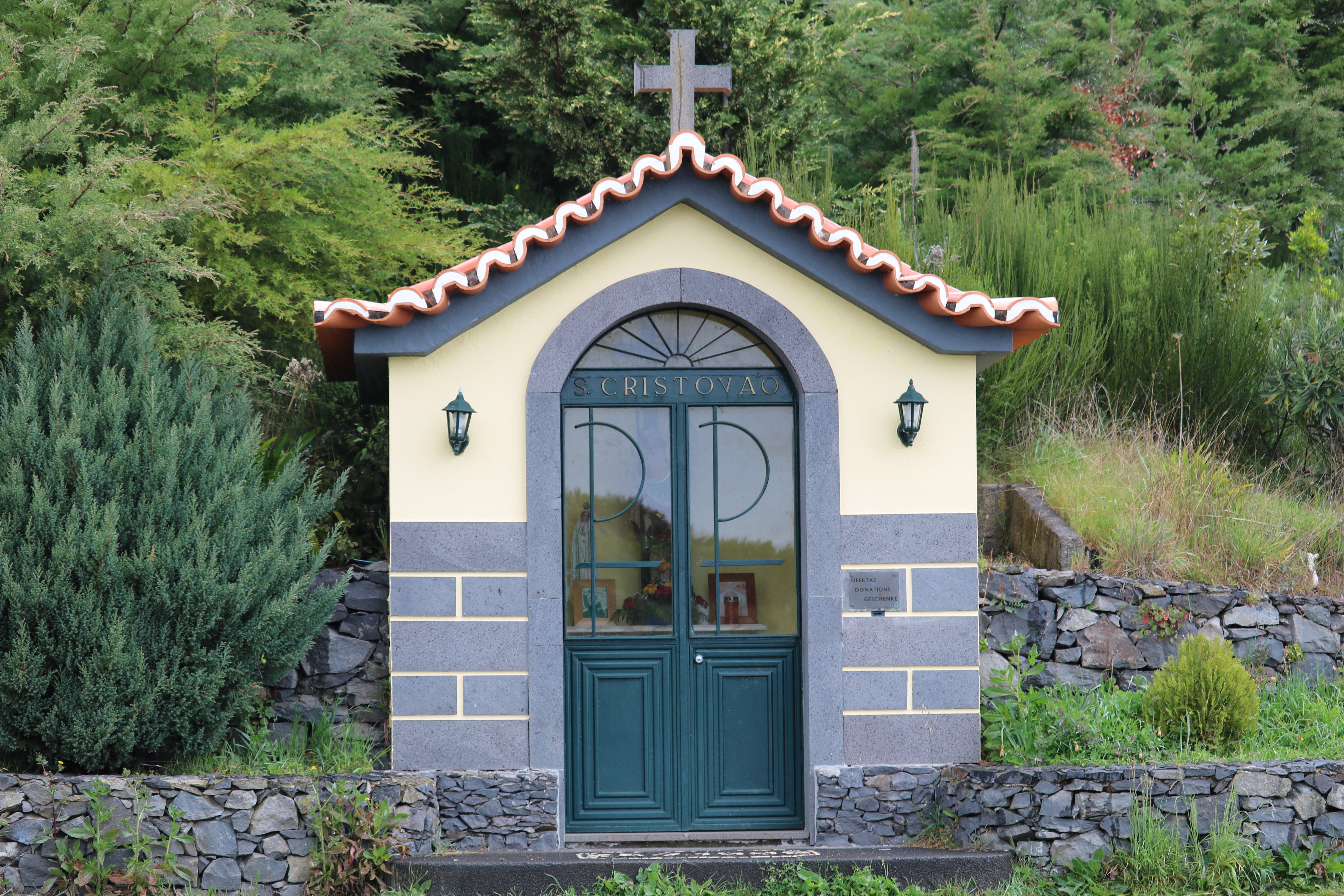 A chapel lost in the middle of the Laurissilva forest